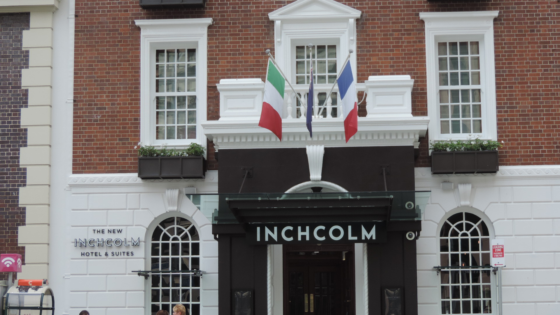 Inchcolm, Wickham Terrace, Spring Hill, 2015